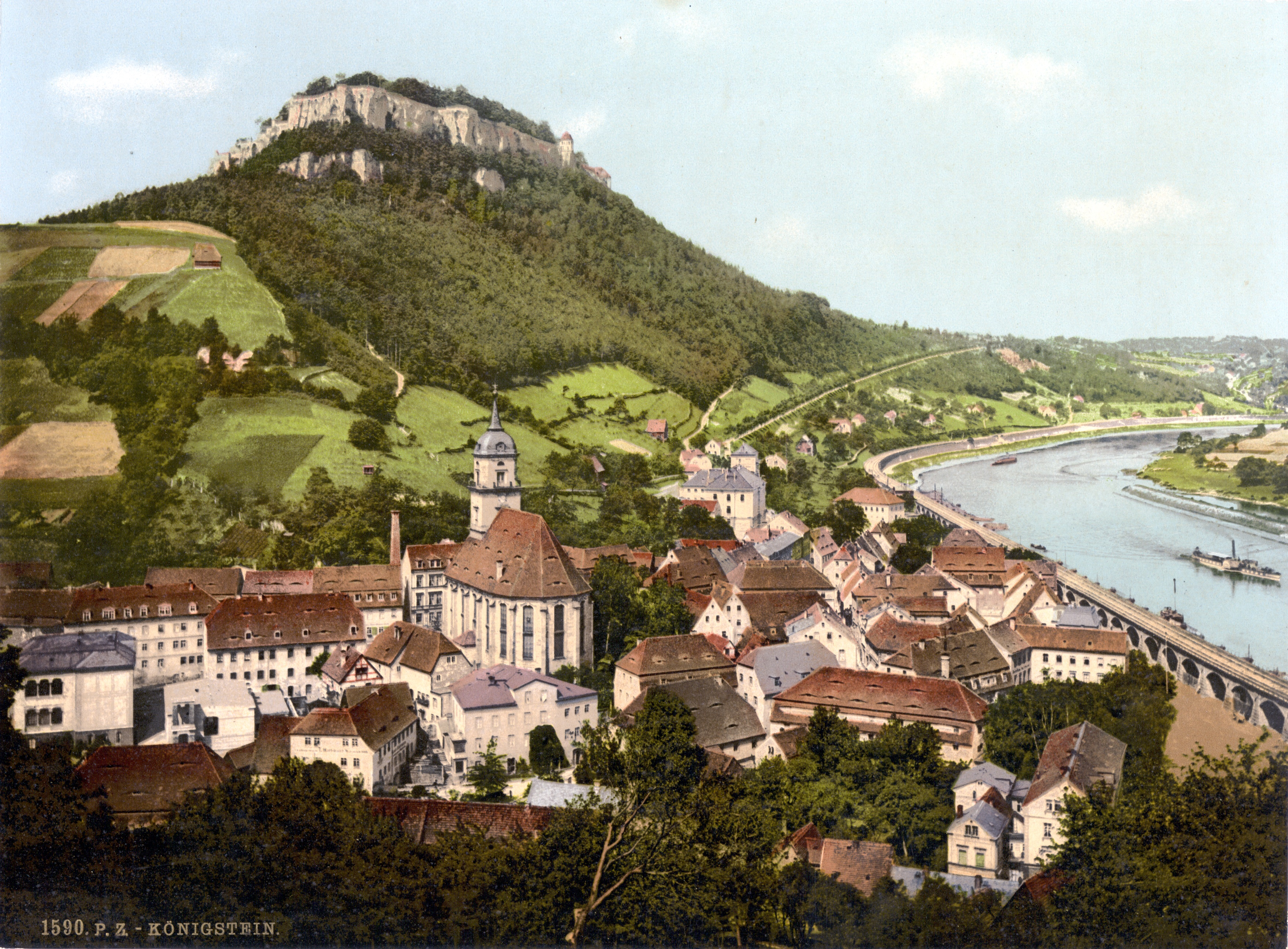 the city of Königstein with Festung Königstein (Saxony, Germany)